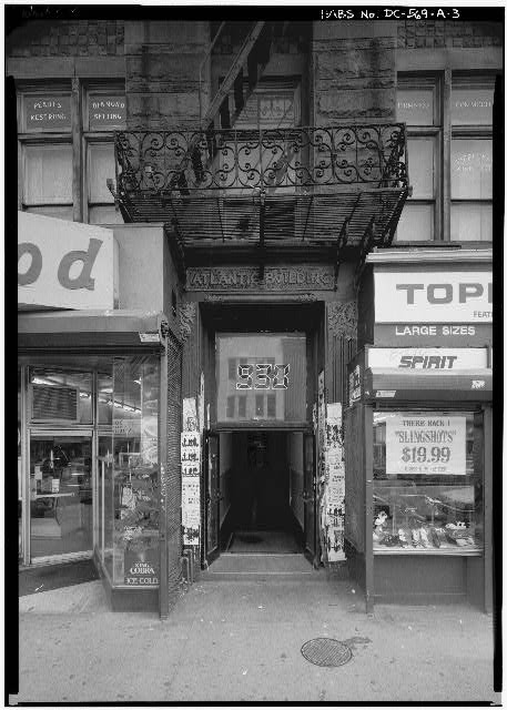 The entrance to the original 9:30 Club, which was housed in the ground floor rear room of the Atlantic Building at 930 F Street NW, in downtown Washington, D.C..